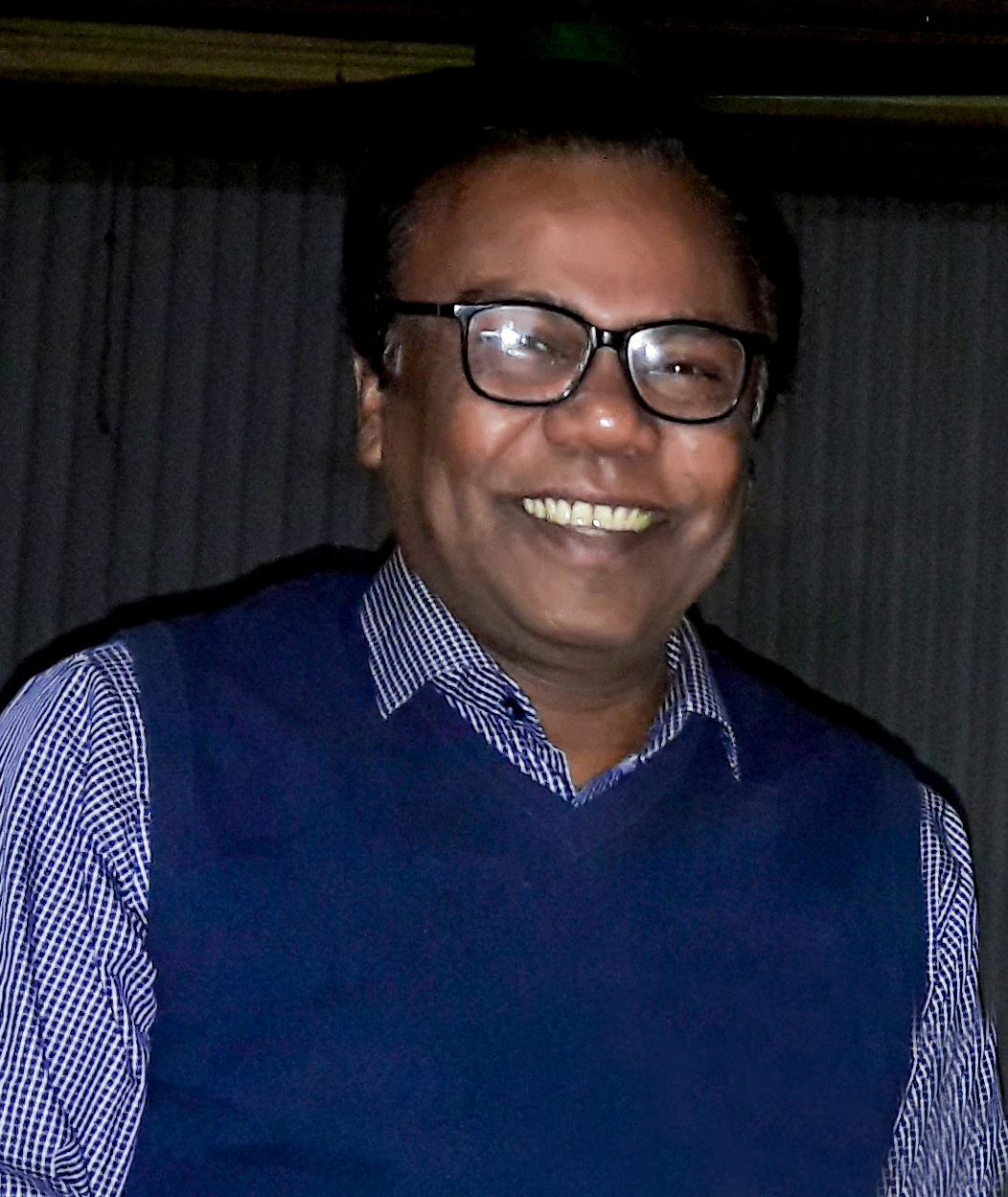 Fazlur Rahman Babu at Pubali while filming.